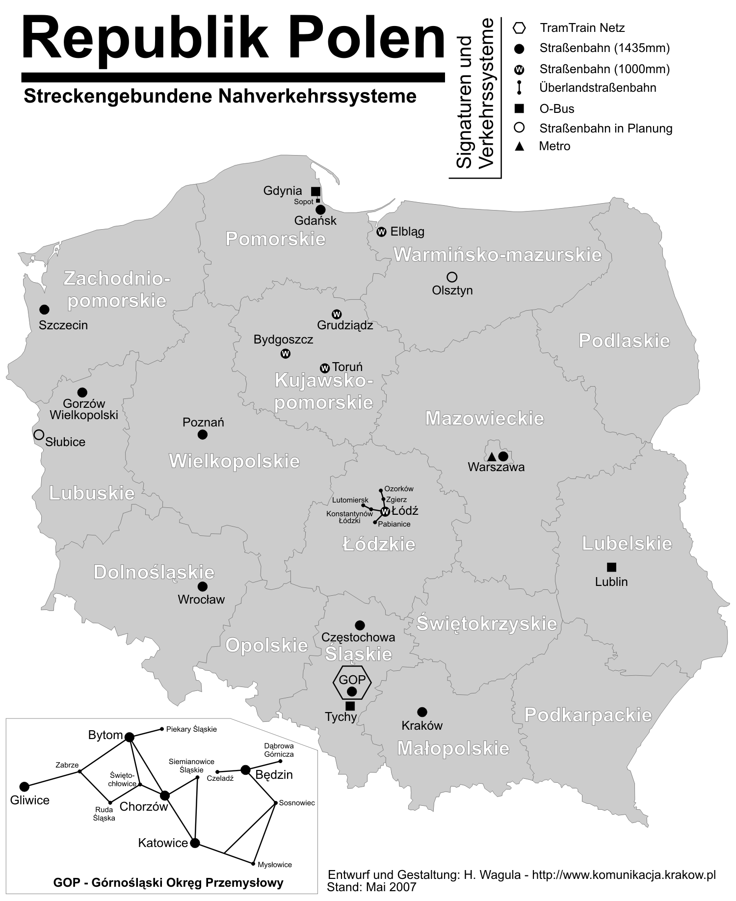 Map of fixed-route public transport systems (suburban railways, Rapid Transit and Light Rail Transit systems, tram, trolleybus) in Poland